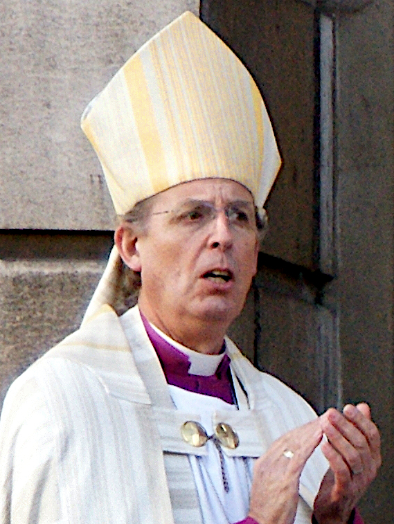 Bishops of the Diocese of Chelmsford